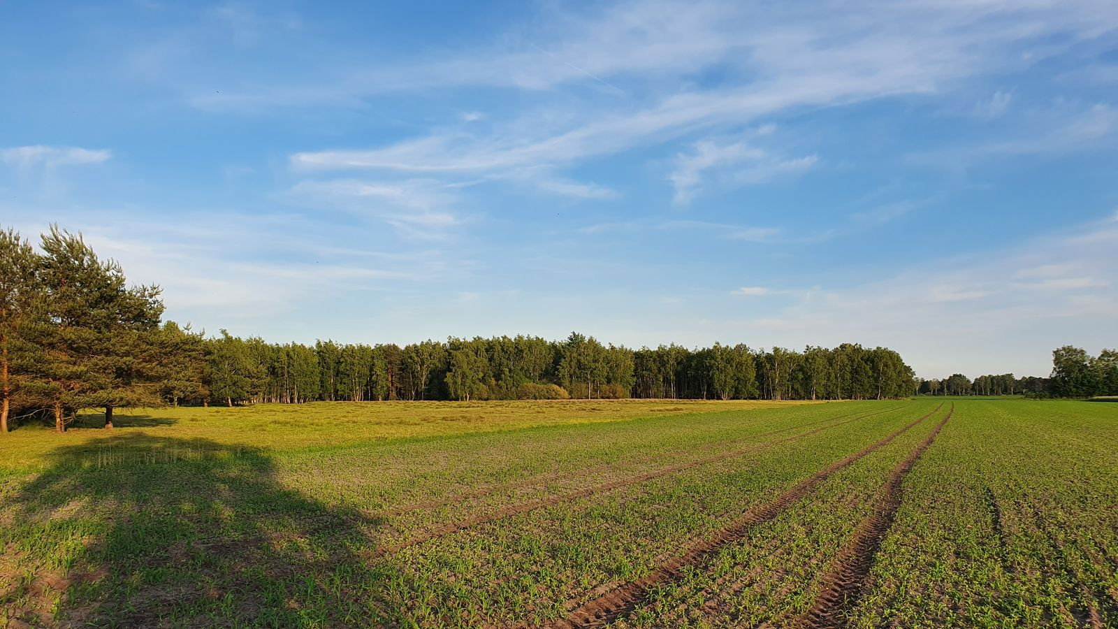 Schneckenstiege